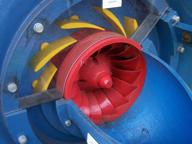 Guide vanes at full flow setting (cut-away view)